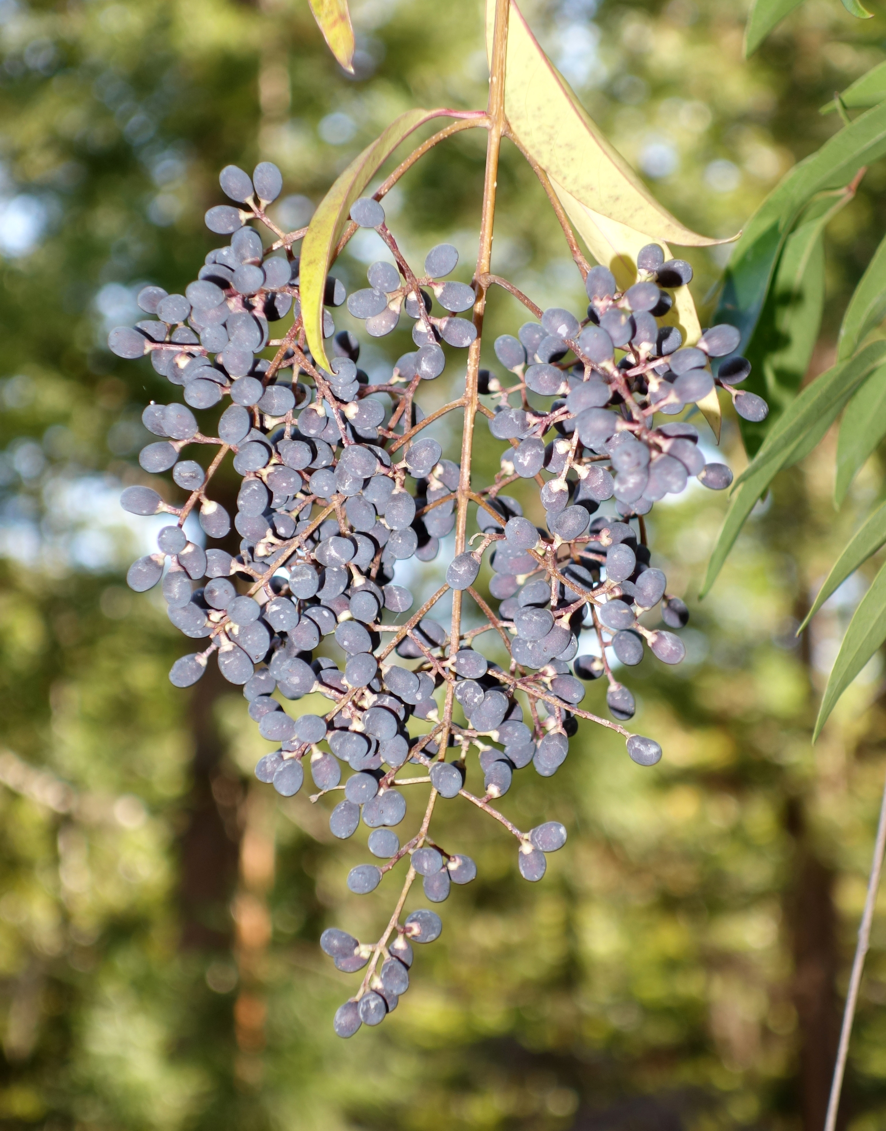 Botanical specimen in Quarryhill Botanical Garden, Glen Ellen, California, USA.